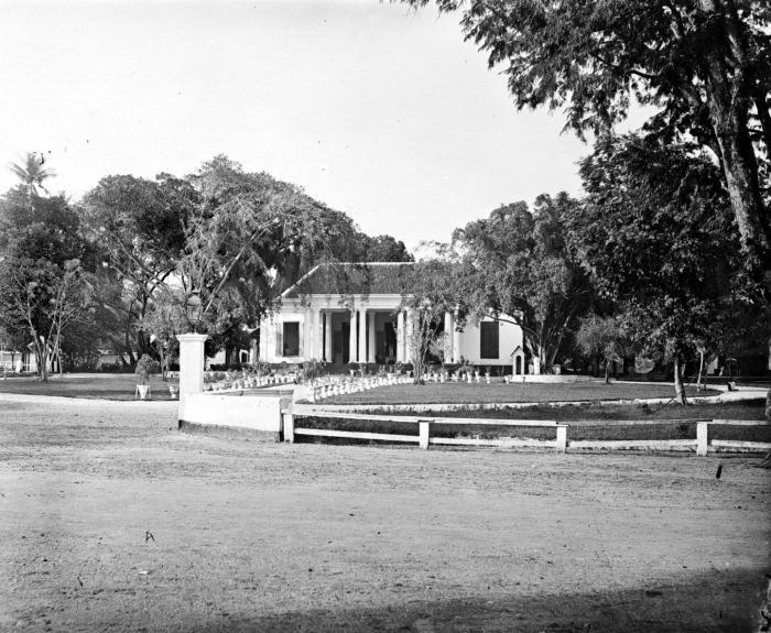 The house of the Resident